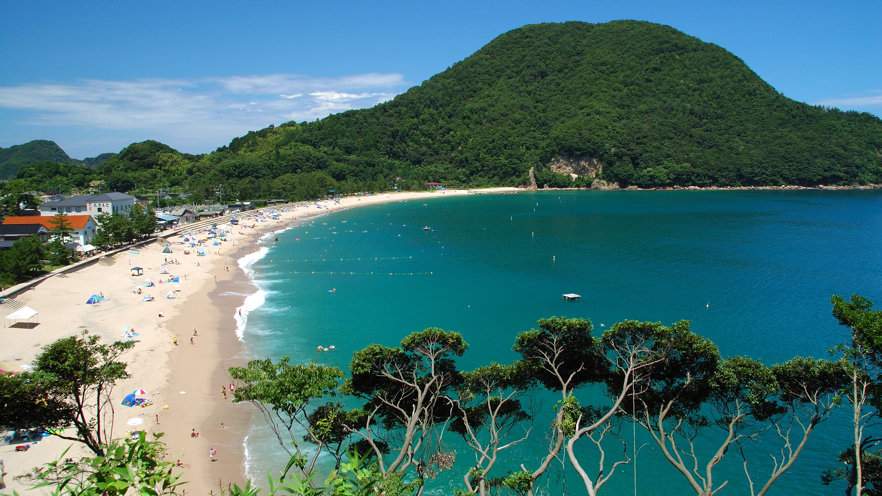 Sazu Beach in Kami ,Hyogo Prefecture,Japan.